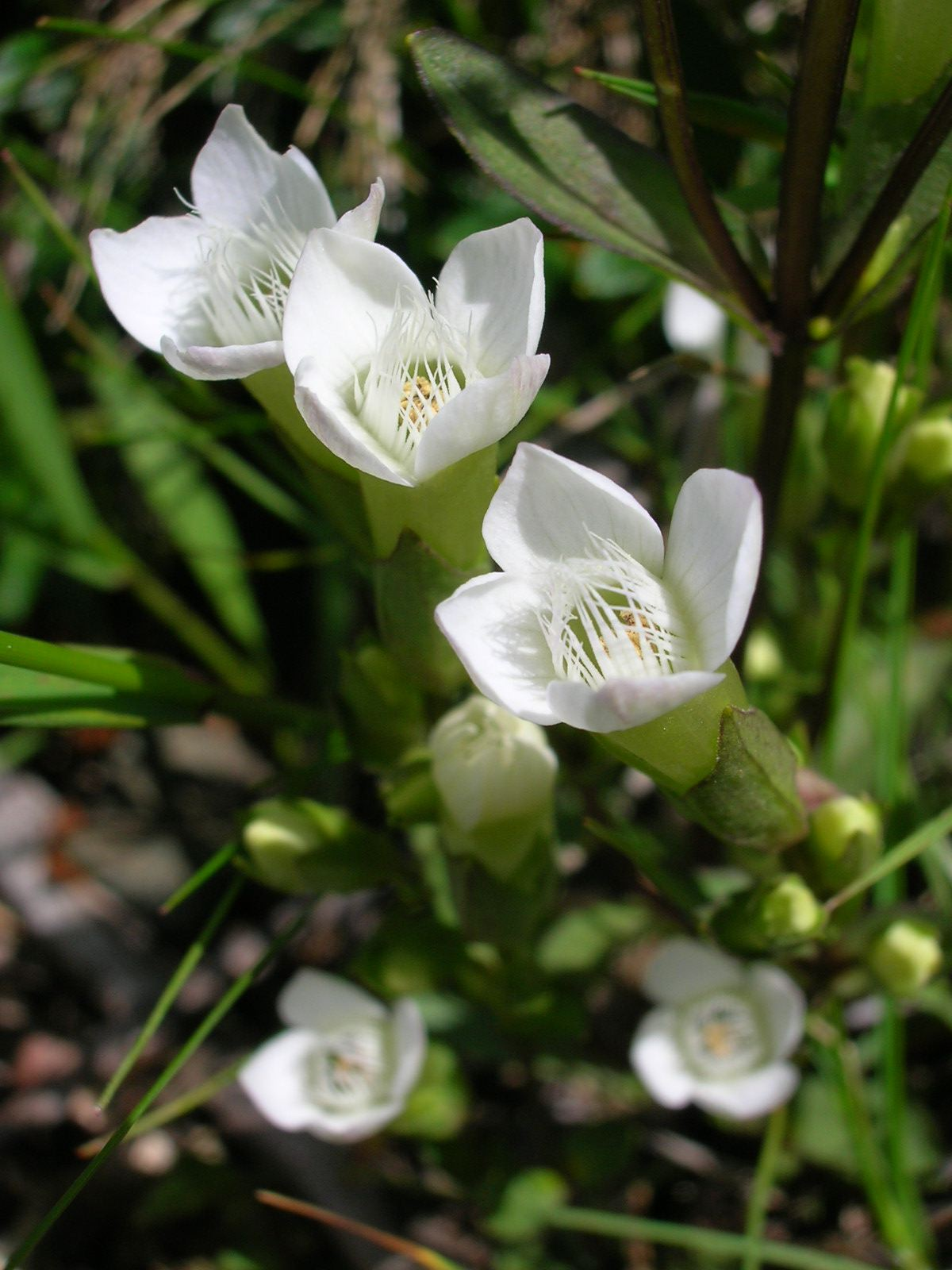 ... (who know this flower?) Gentianella campestris (Schweiz, Engadin, 2000 m ü M)